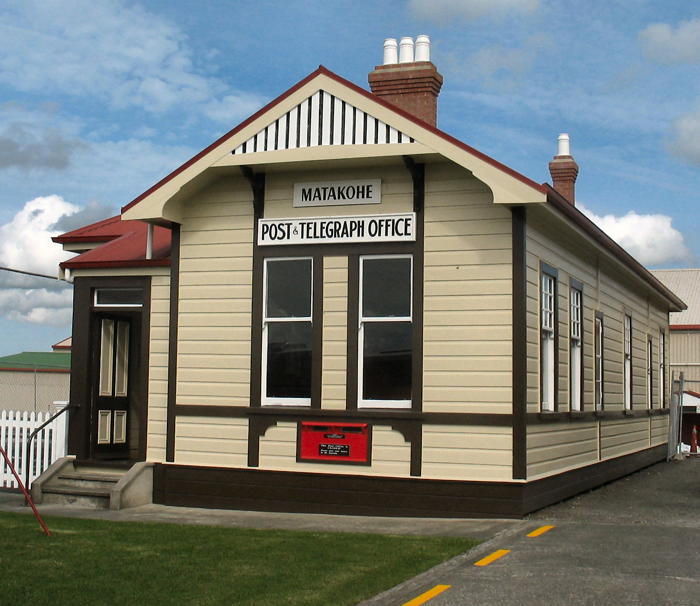 Post and telegraph office at Matakohe, Northland, New Zealand. The building is now a museum. New Zealand Historic Places Trust Category II, registration number 3911.